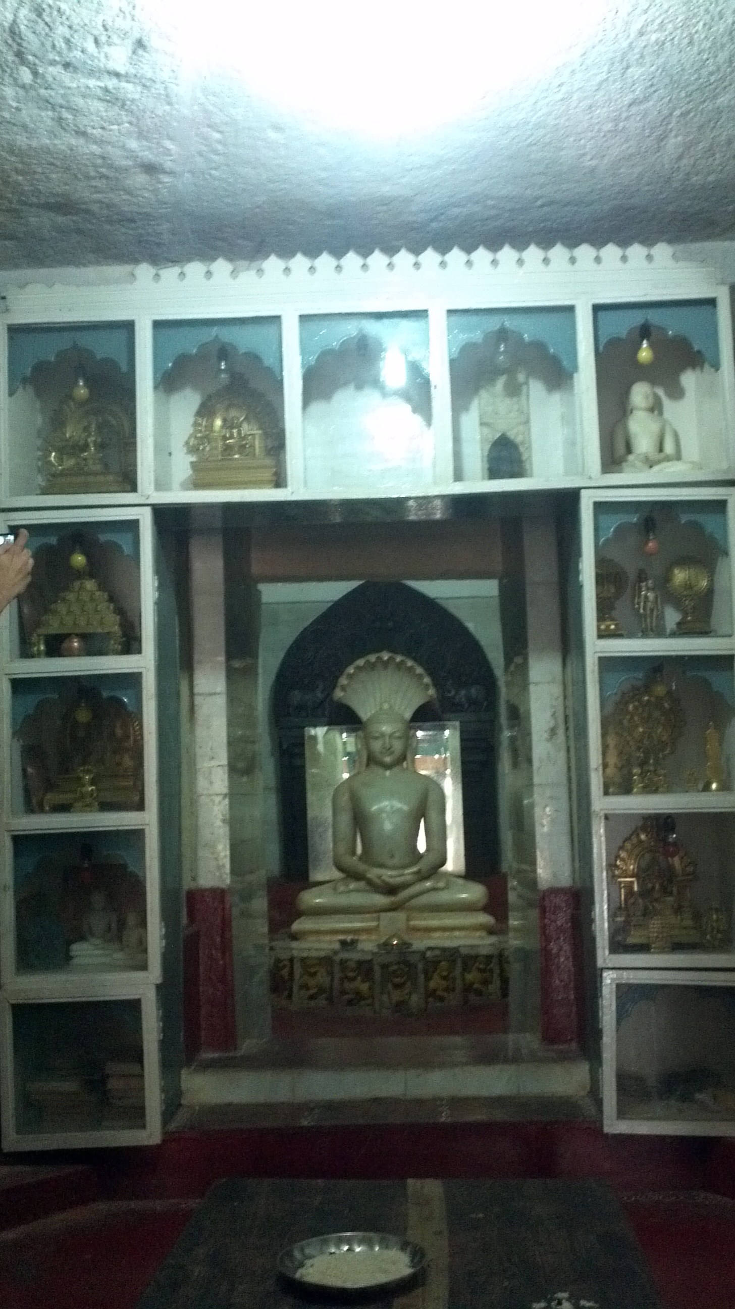 Jinnath pura is located at 1.5 KM from the Sravanbelgola, Haasan.